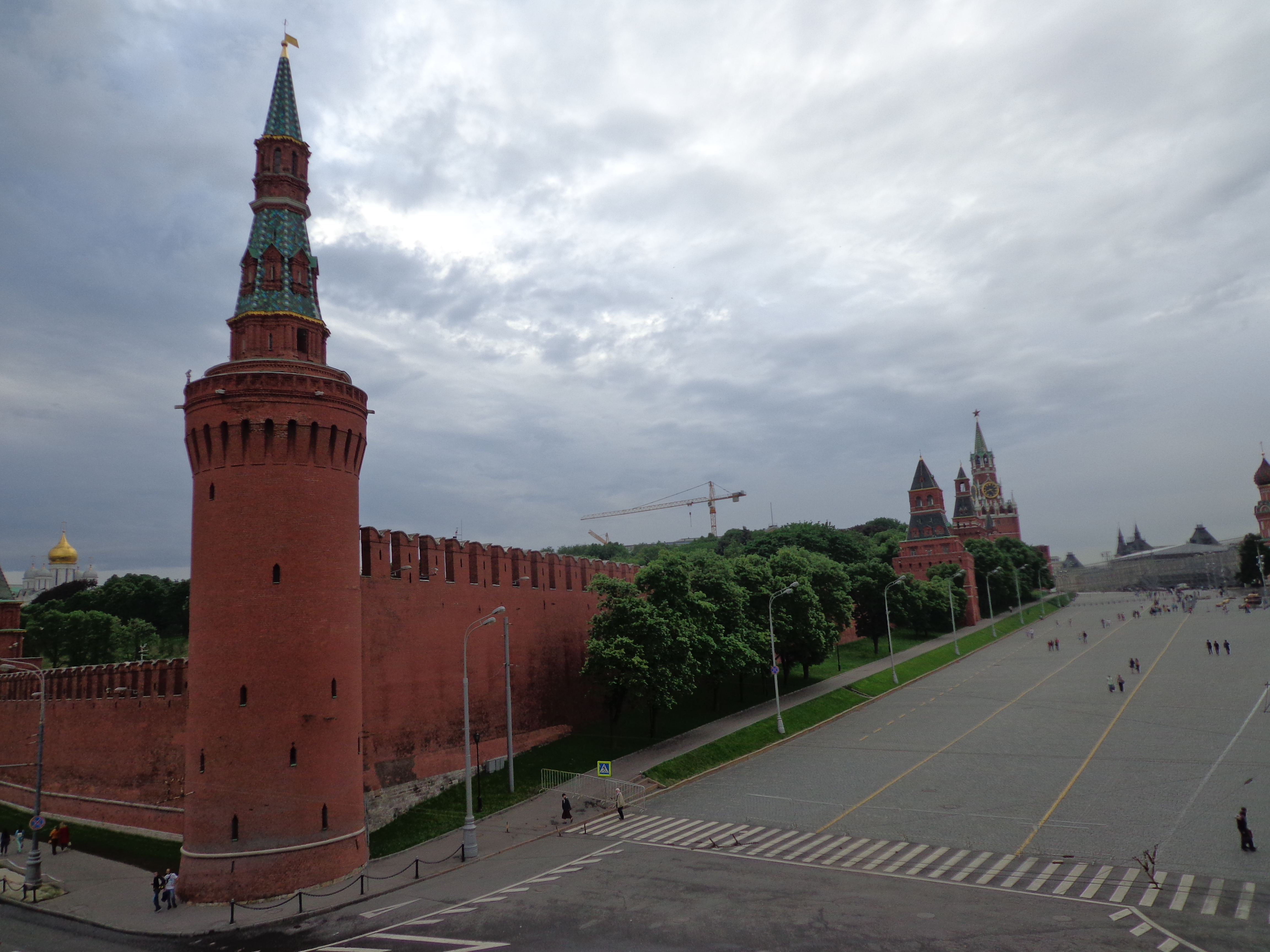 Kremlin east wall from Moskva river, Moscow